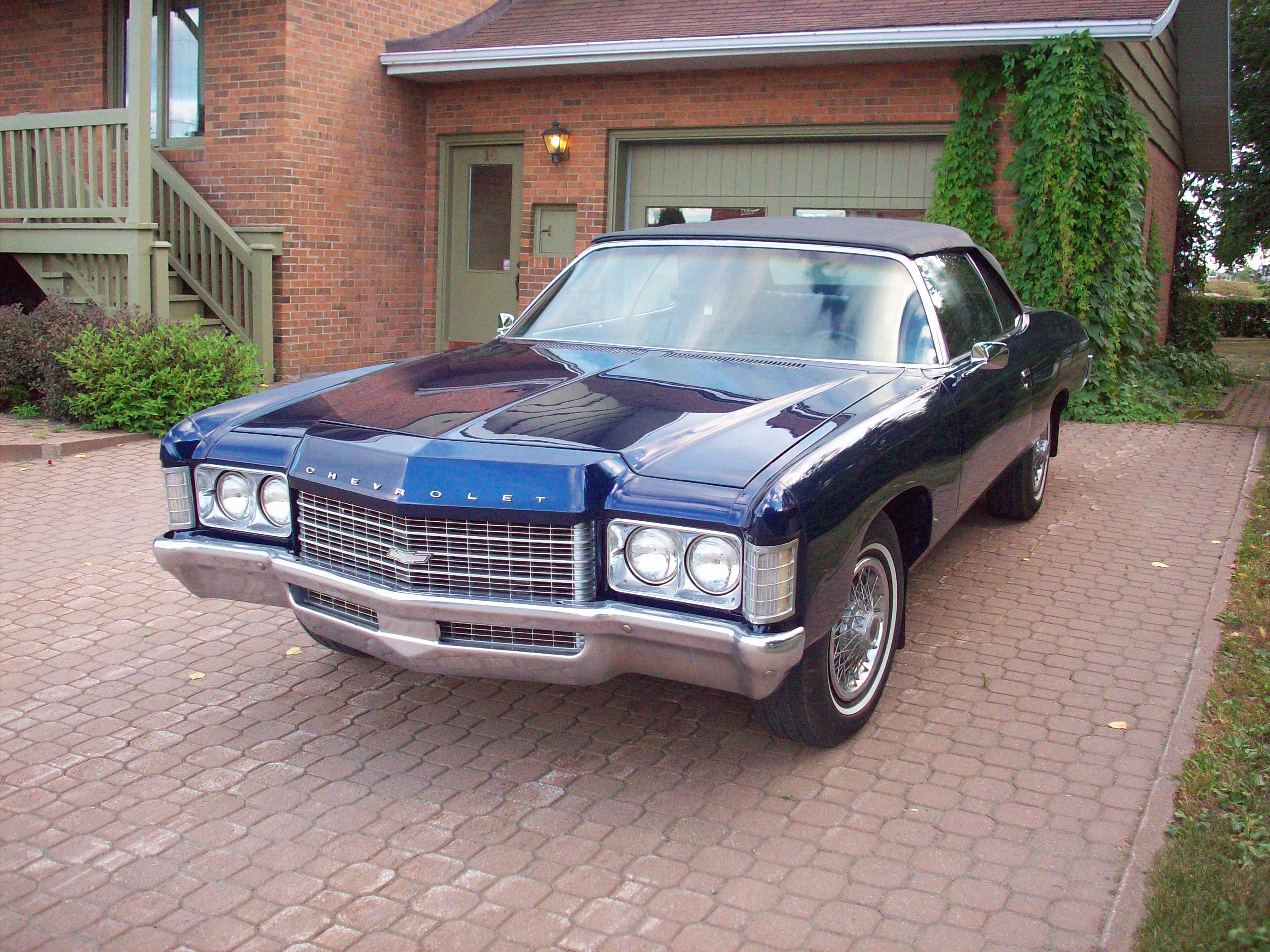 Chevrolet impala 1971 convertible